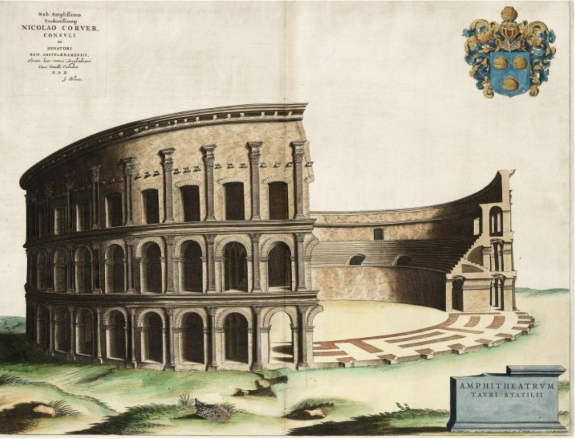 Reconstruction of the Amphitheater of Statilius Taurus, Rome, Italy.